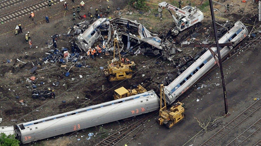 Derailed passenger cars involved in the 2015 Philadelphia train derailment. (Original caption: "Two passenger cars on their side and the remains of a damaged passenger car")